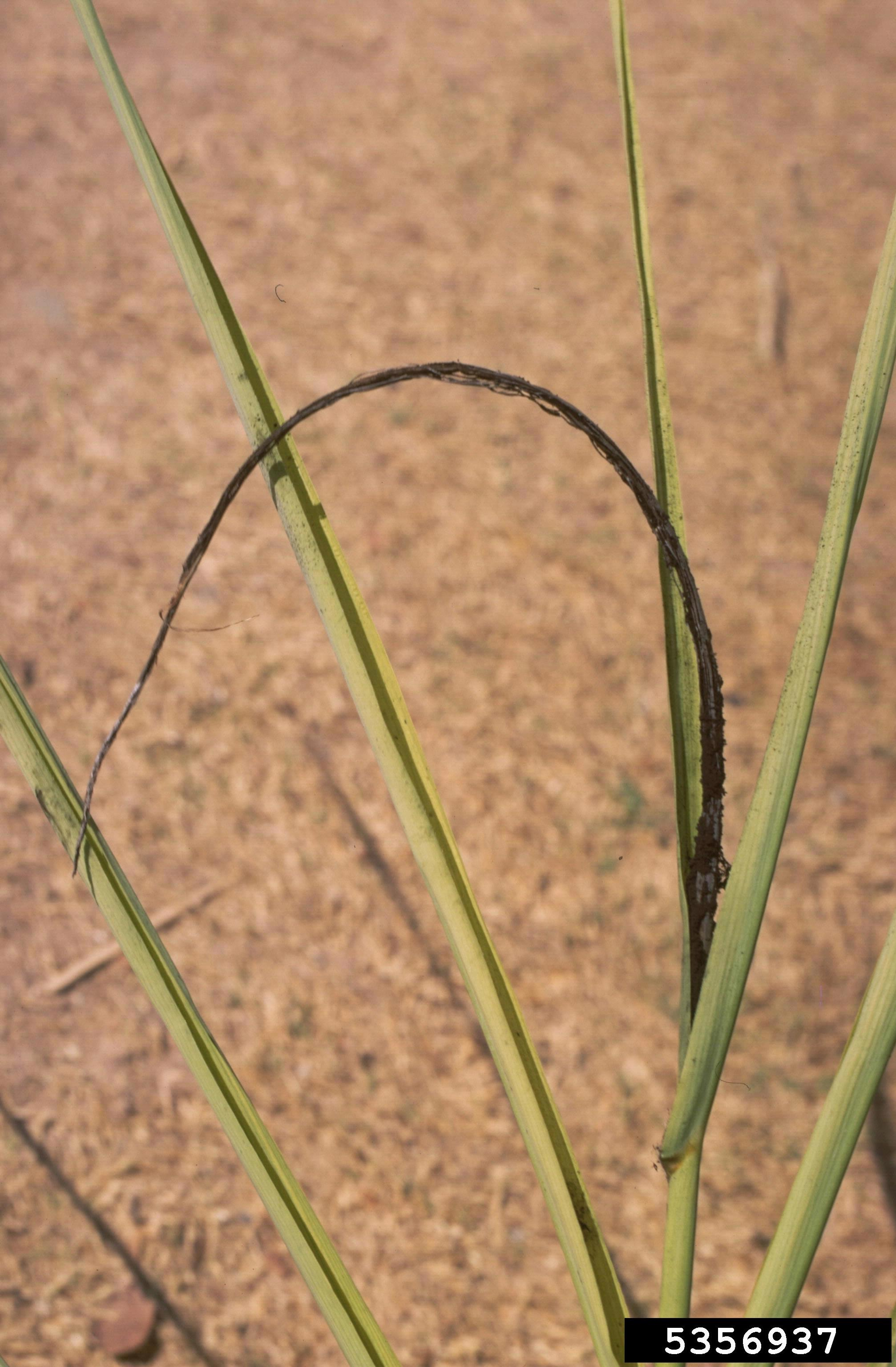 Sugar cane smut